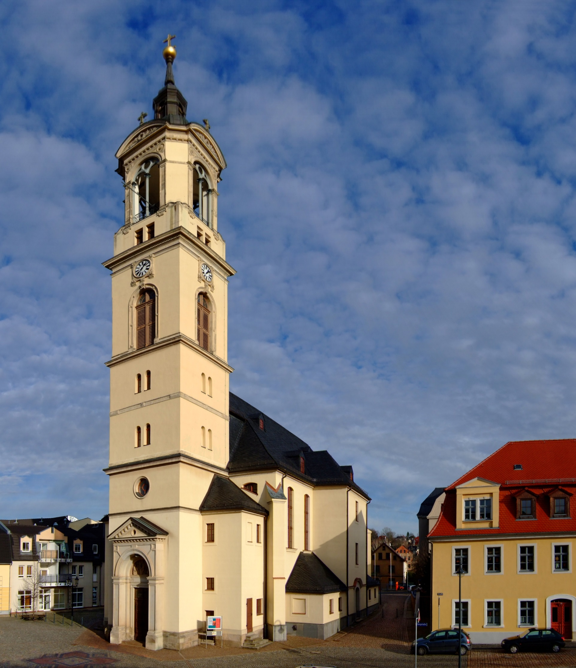 Marienkirche Werdau/Saxony